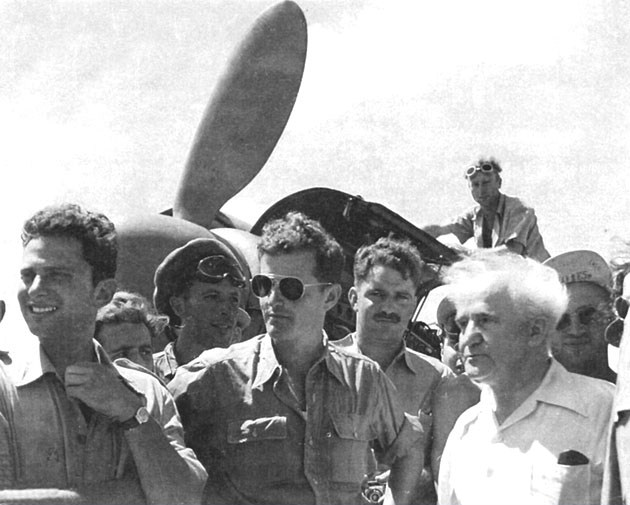 David Ben Gurion visits 101 "First Fighter" Squadron. With sunglasses - Modi Alon, behind Alon's left shoulder stands Syd Cohen, and on the photo left are Gideon Lichtman and Maurice Mann